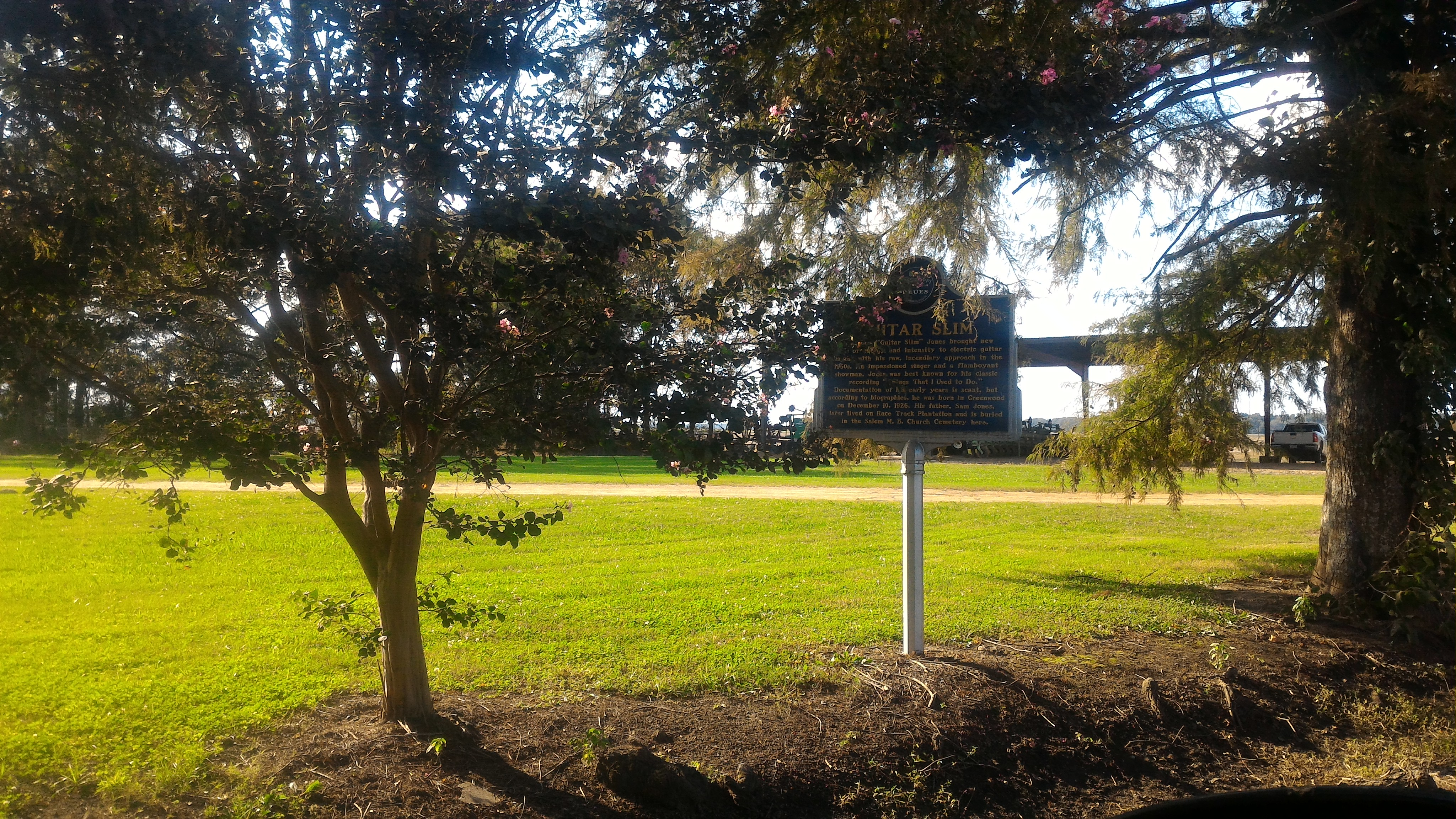 Blues trail marker located in the Greenwood area off Highway 49 East